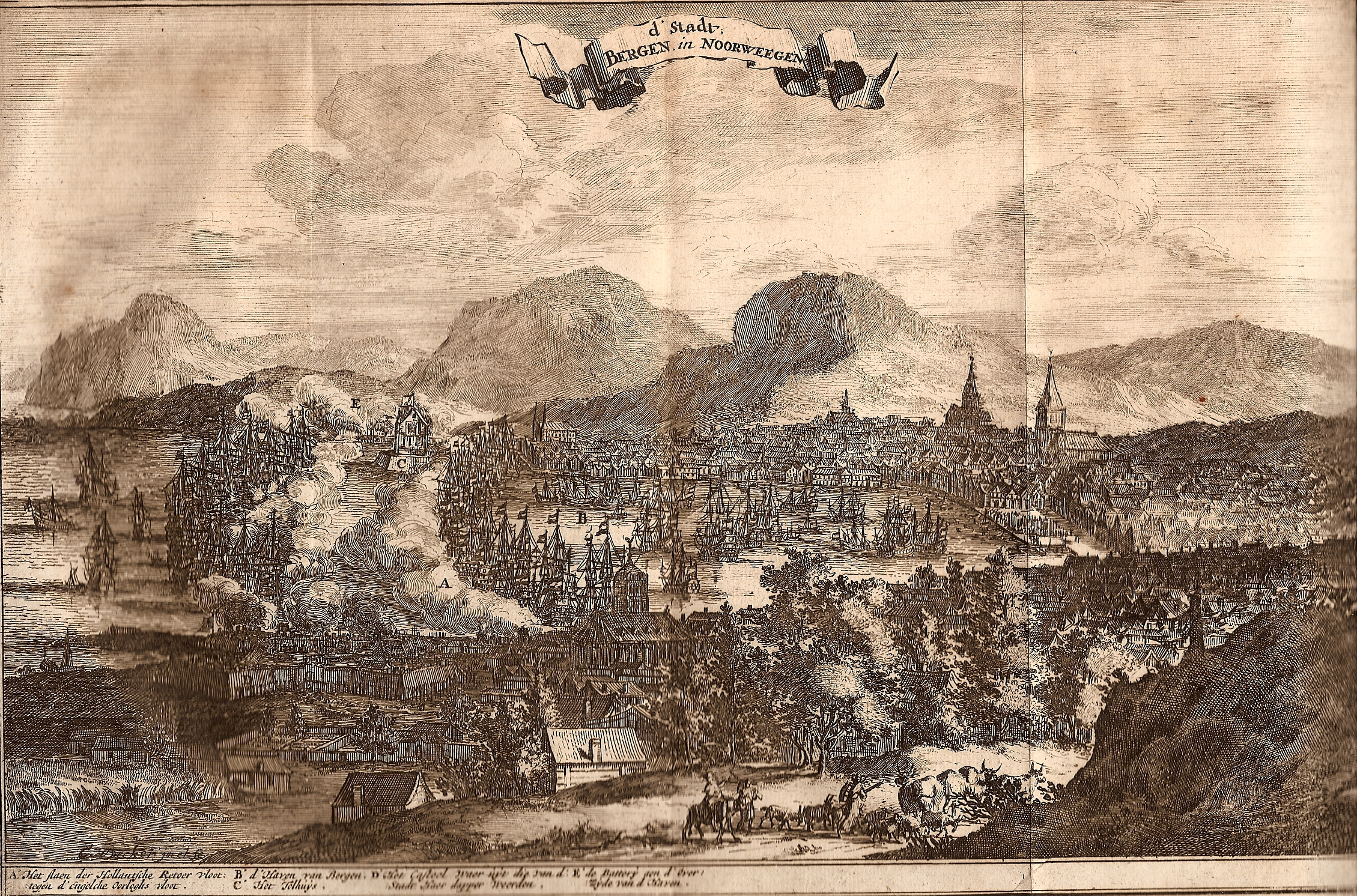 Picture of the Battle of Vågen